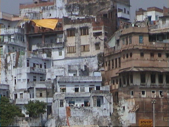 See Varanasi Development Cooperation Handbook/Stories/Responsible Development - Varanasi The Varanasi Heritage Dossier Kautilya Society Play media Vrinda Dar - How we got involved in heritage protection of Varanasi